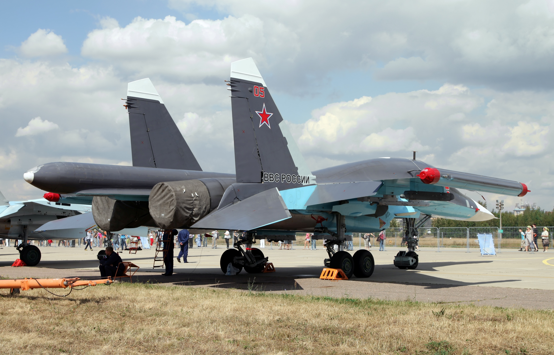 Su-34 at the Celebration of the 100th anniversary of Russian Air Force.